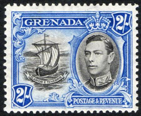 Grenada 1938 two shilling blue stamp.